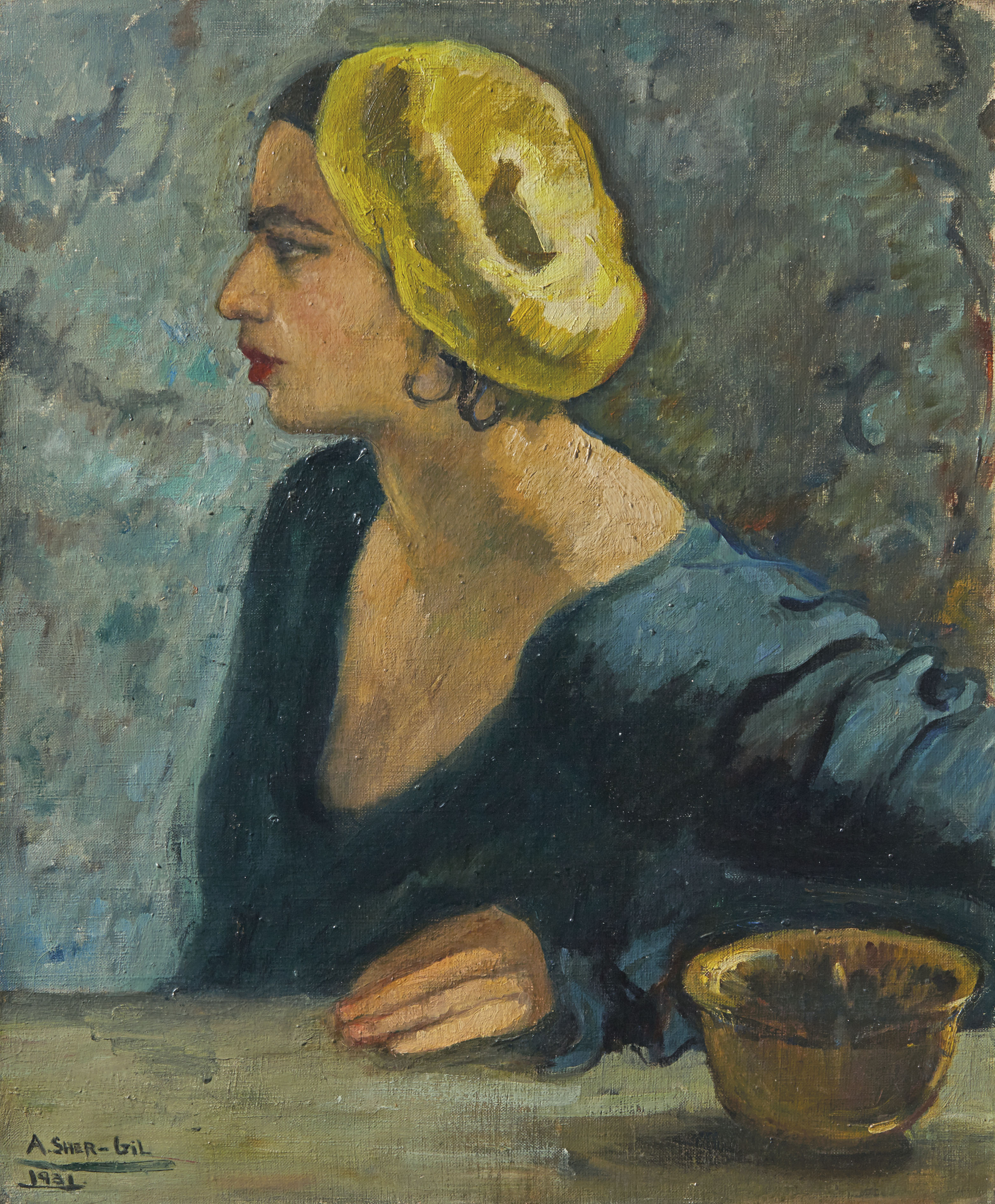 Self-portrait, untitled, by Amrita Sher-Gil. Private Collection. Oil on canvas, 25 5/8 x 21¼ in. (65.1 x 54 cm.) cf. [1].